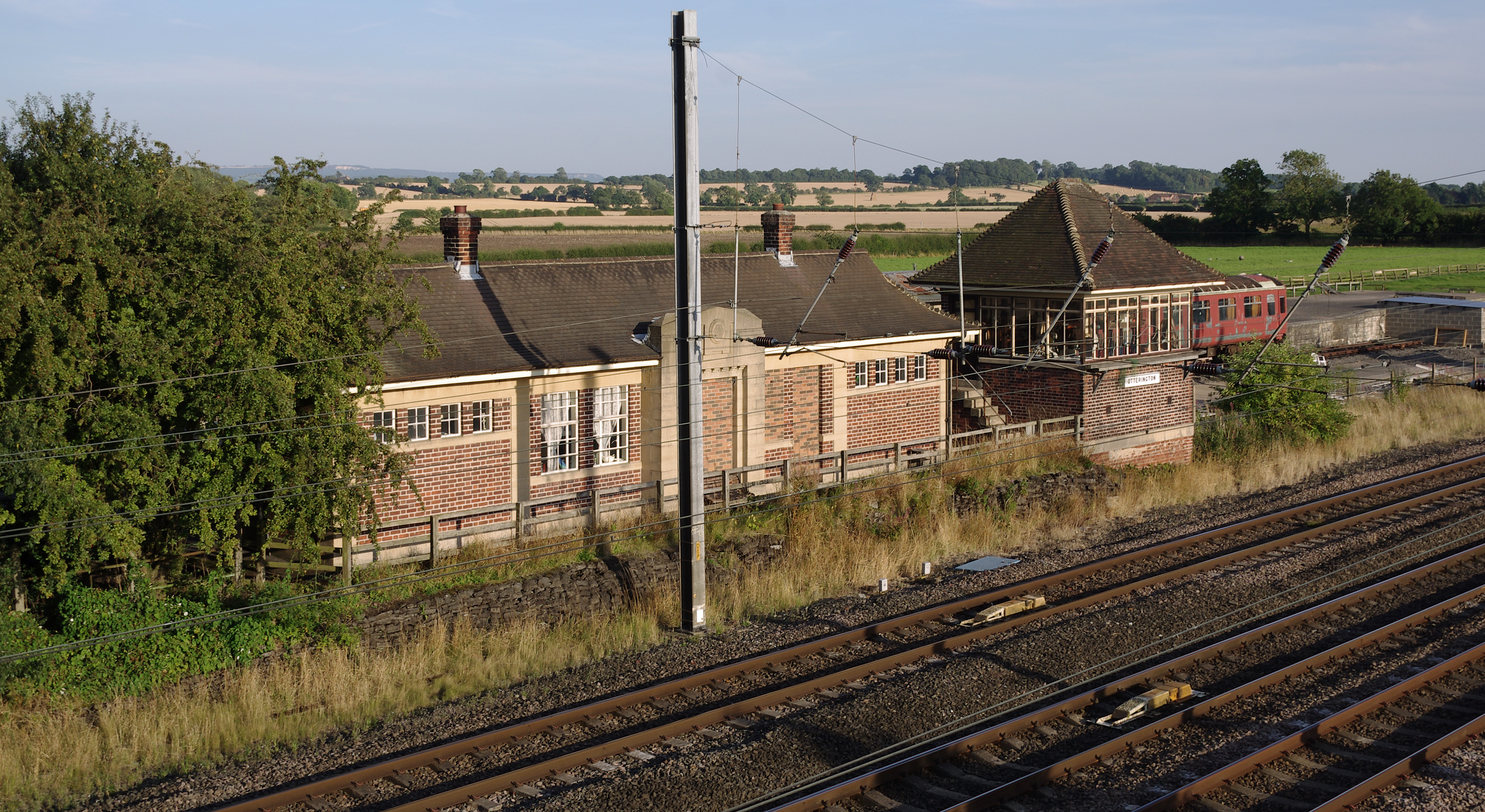 Otterington railway station on the East Coast Main Line in Yorkshire. The station is no longer active, and is now a private residence.